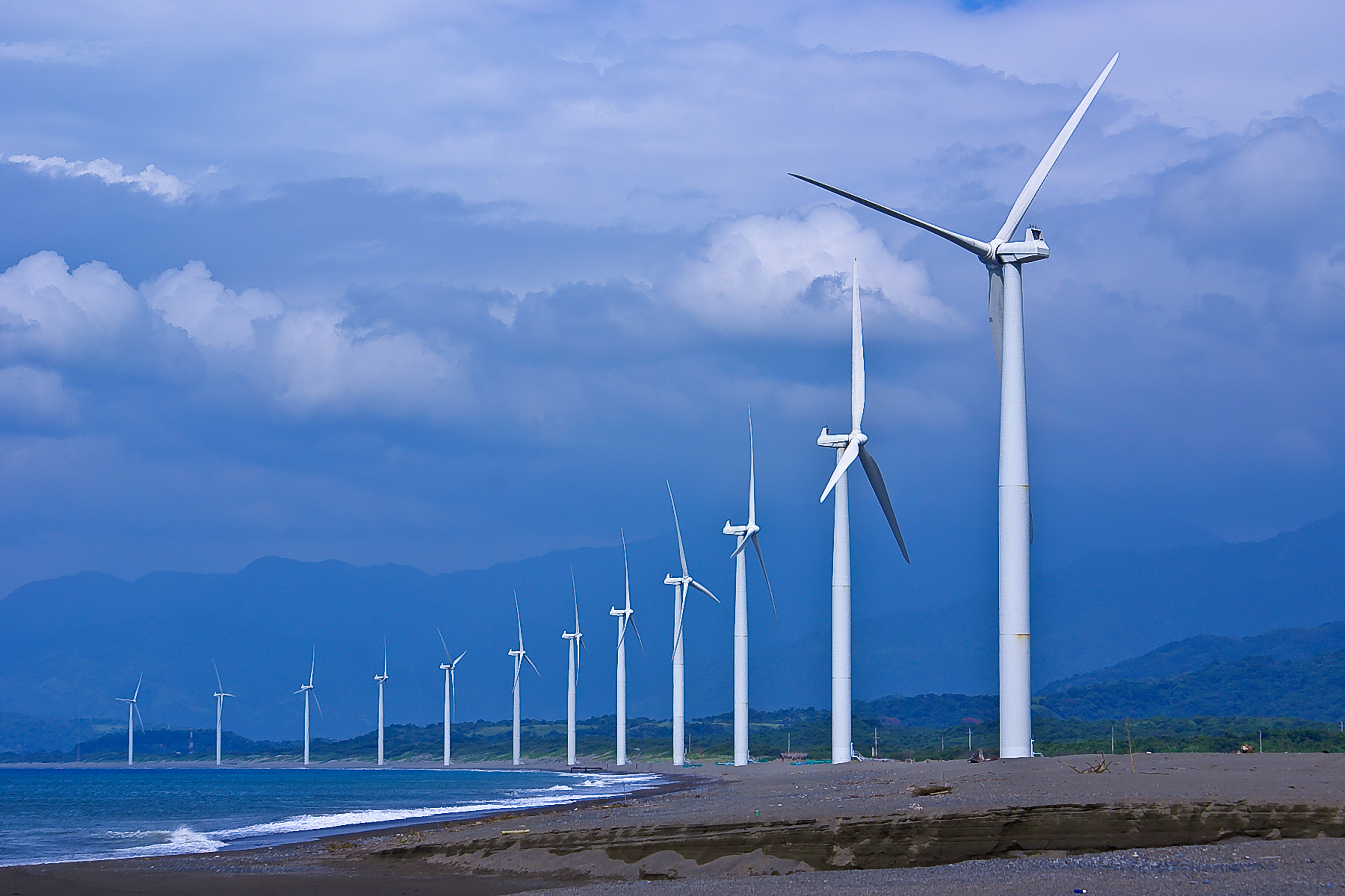 Bangui Windmill, Ilocos Norte.